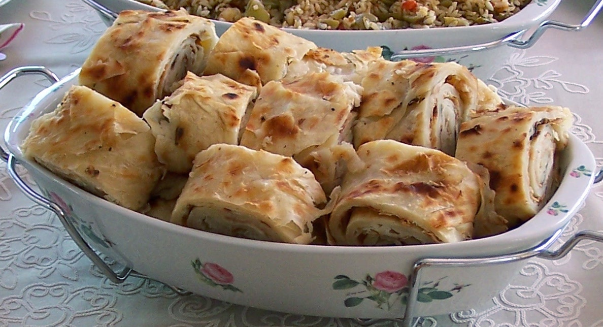 Gözleme